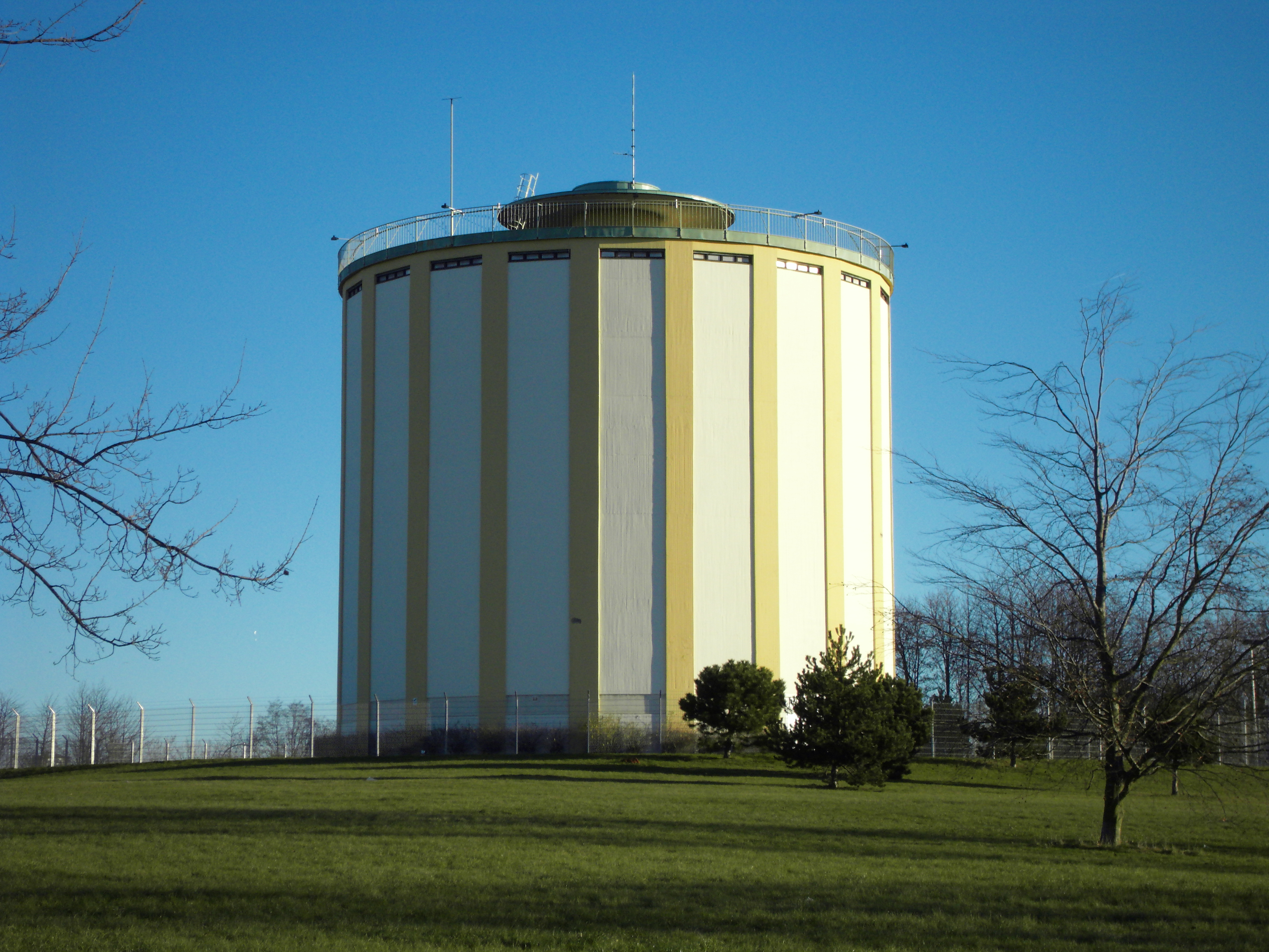 This is Botildenborg's Water Tower situated in the city district Rosengard in the city of Malmo. Photographed 25 November, 2013.